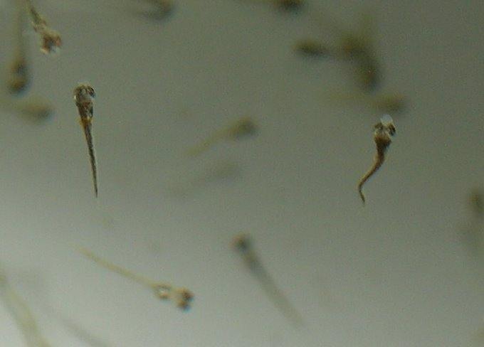 Larvae of the Burbot Lota lota from Belgian Hatchery